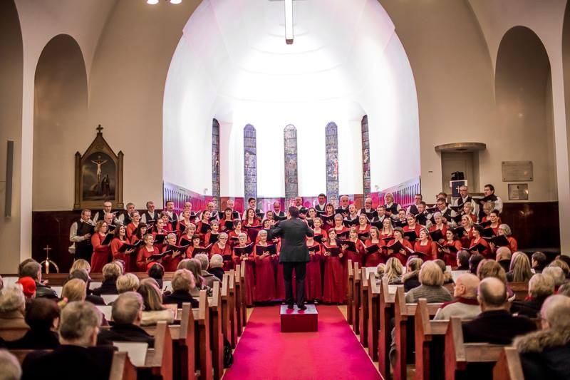 Kór Akureyrarkirkju á jólatónleikum í desember 2013